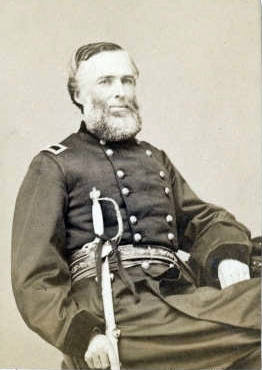 Brevet Brigadier General James A. Ekin, circa 1865. Scan from an original, anonymous CDV in my personal collection. Image is public domain, given that the photographer died over 70 years ago and no copyright renewal has been found for this image.